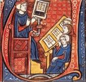 Class in a medieval university: a doctor of canon law with his pupils